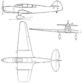 VEF J-12 3-view